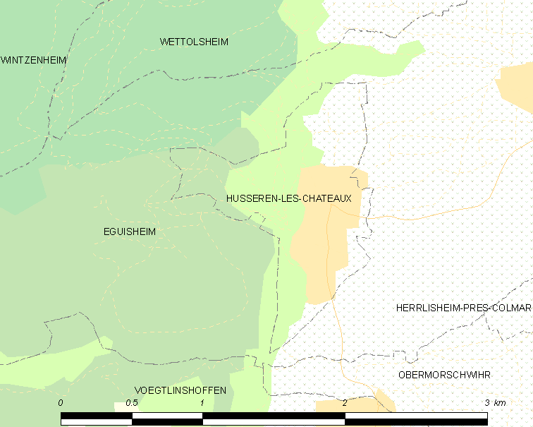 Map of French municipality